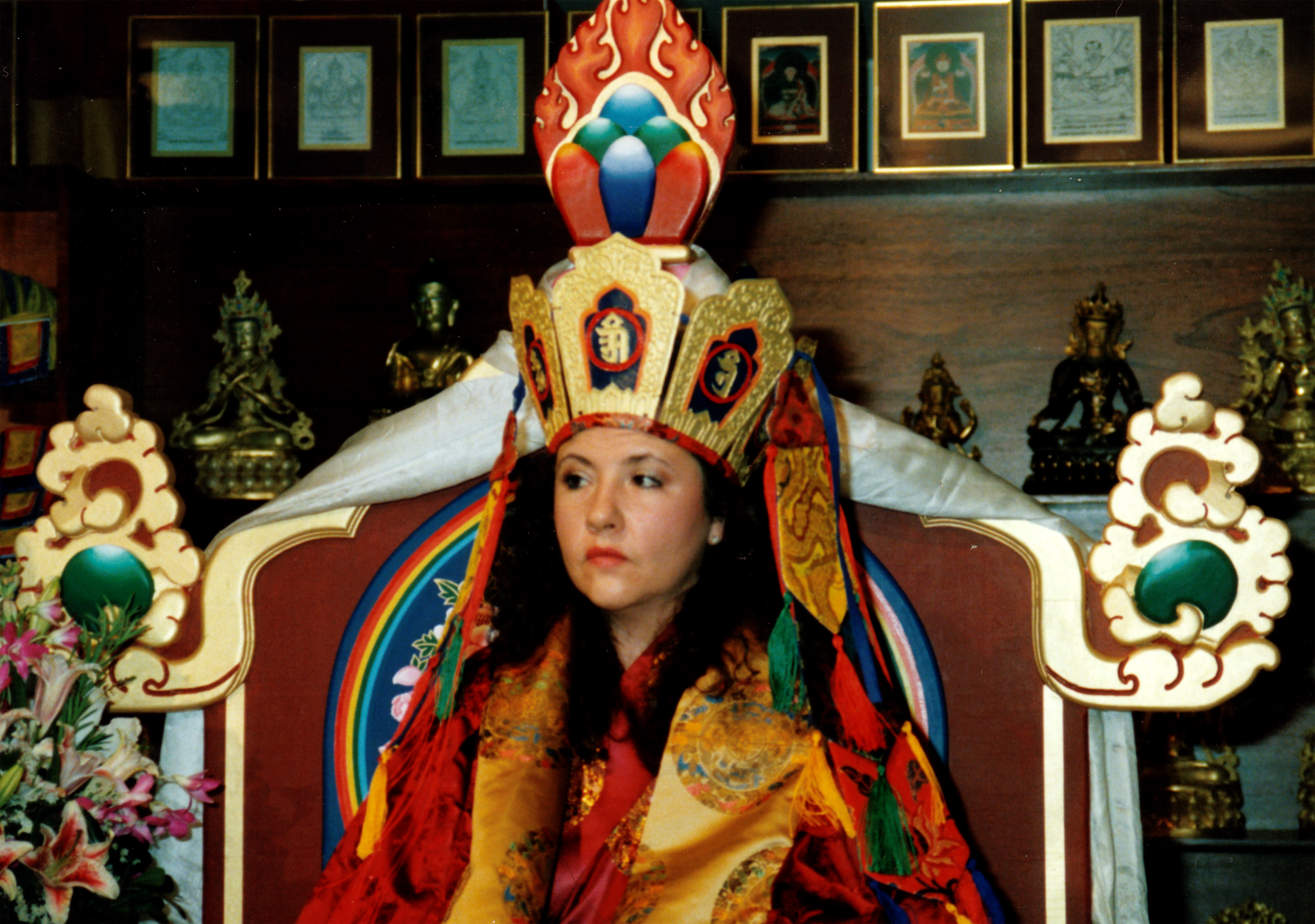 Jetsunma Akhon Lhamo Enthronement